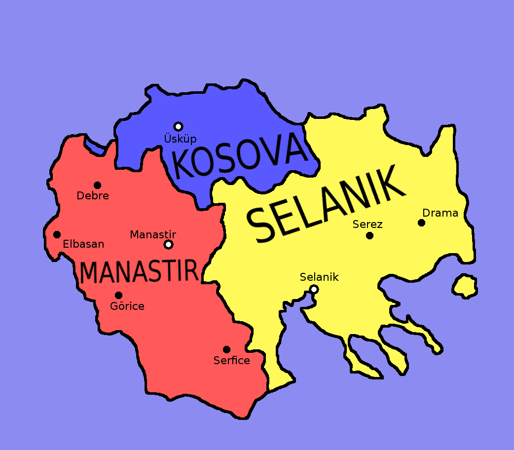 The Vilayets in the Ottoman region of Macedonia with their capitals and sanjaks from Memalik-i Mahruse-i Şahaneye Mahsus Mükemmel Atlas 1907.